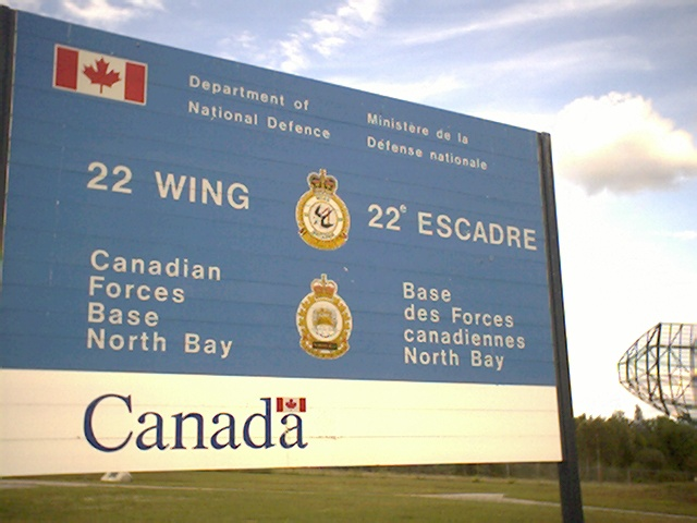 Entrance To 22 Wing At CFB North Bay, located in North Bay, Ontario Canada. Picture taken summer 2005.